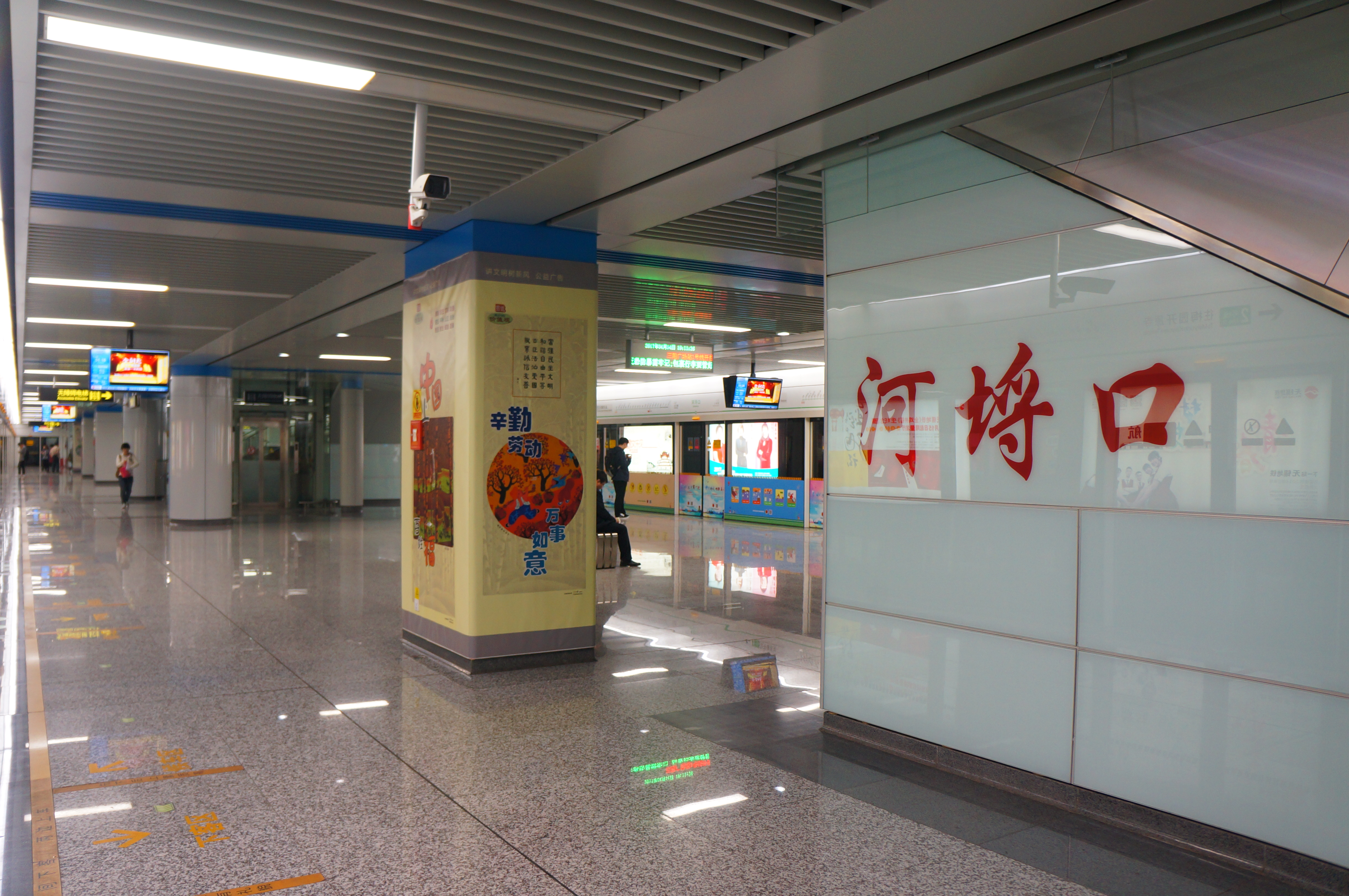 201704 Nameboard of Heliekou Station